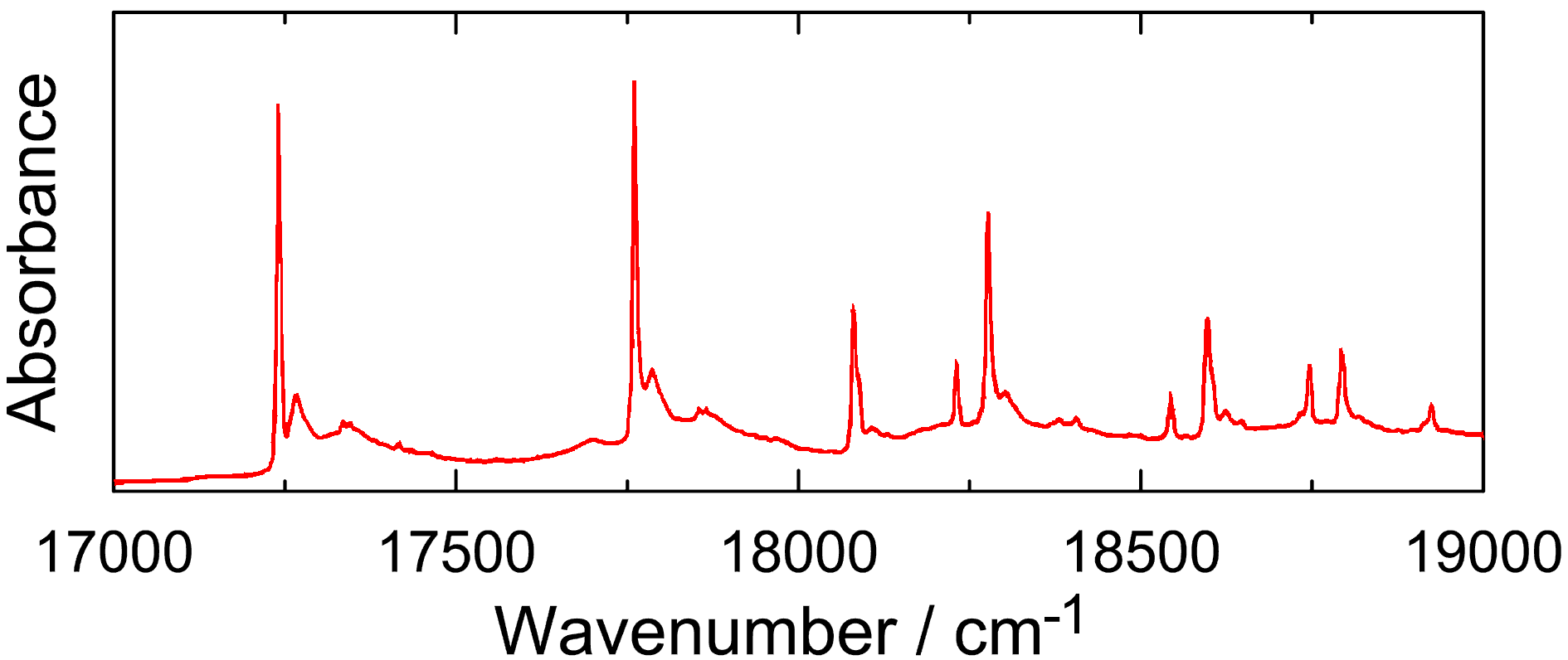 Graph of DMST in n-hexane at 4.2 K